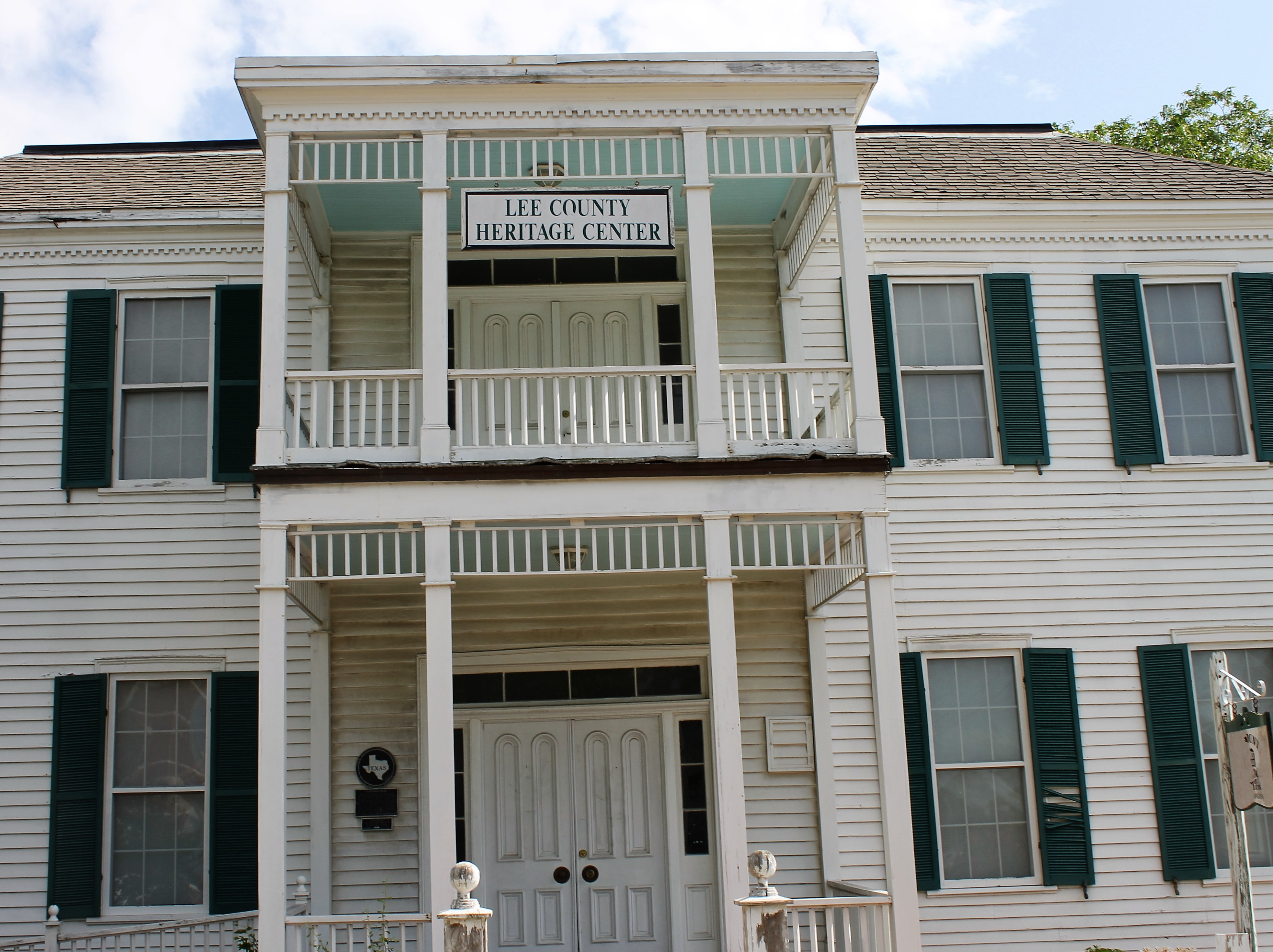 Lee County Heritage Center in Giddings, TX